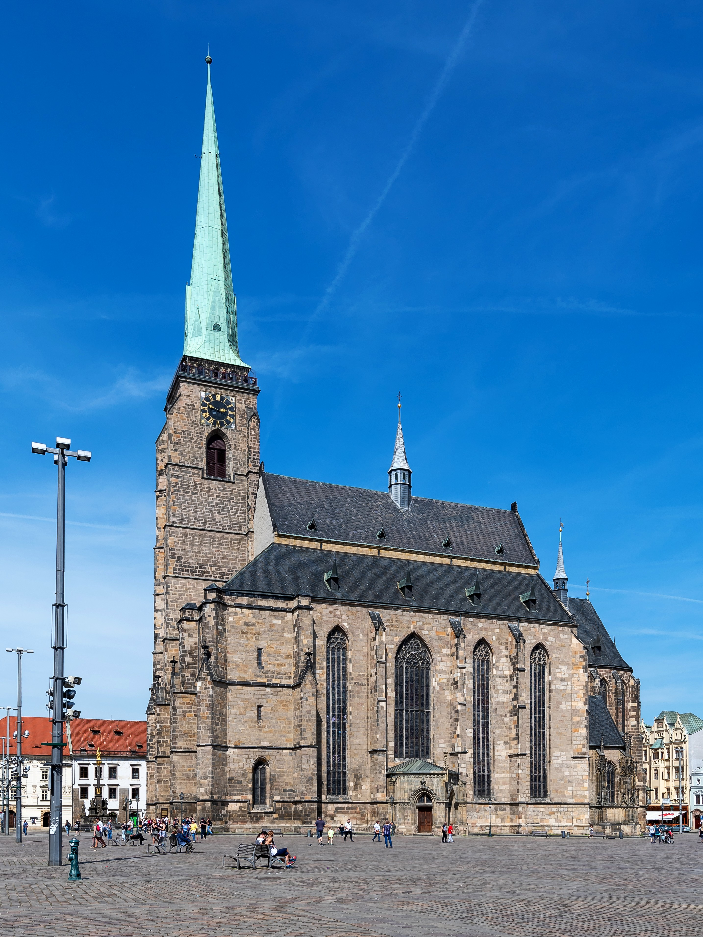 The erection of the gothic Cathedral of Saint Bartholomew in Plzeň has started around 1295. The belfry is 102.3 m tall and it is the the tallest Belfry in the Czech Republic.